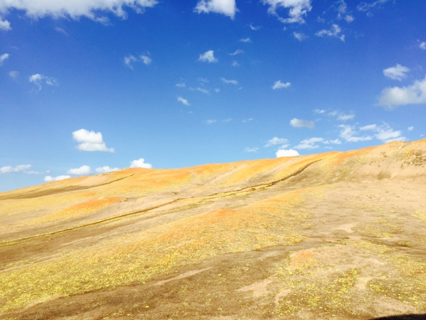 Top of Domboshava